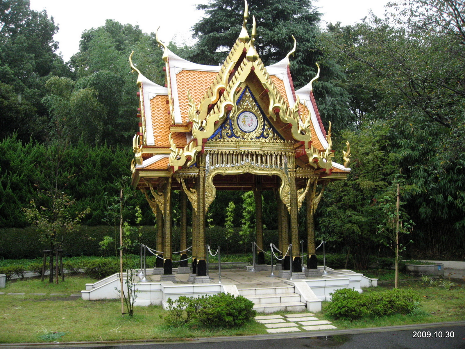 Ueno Zoo（Ueno Zoological Gardens）